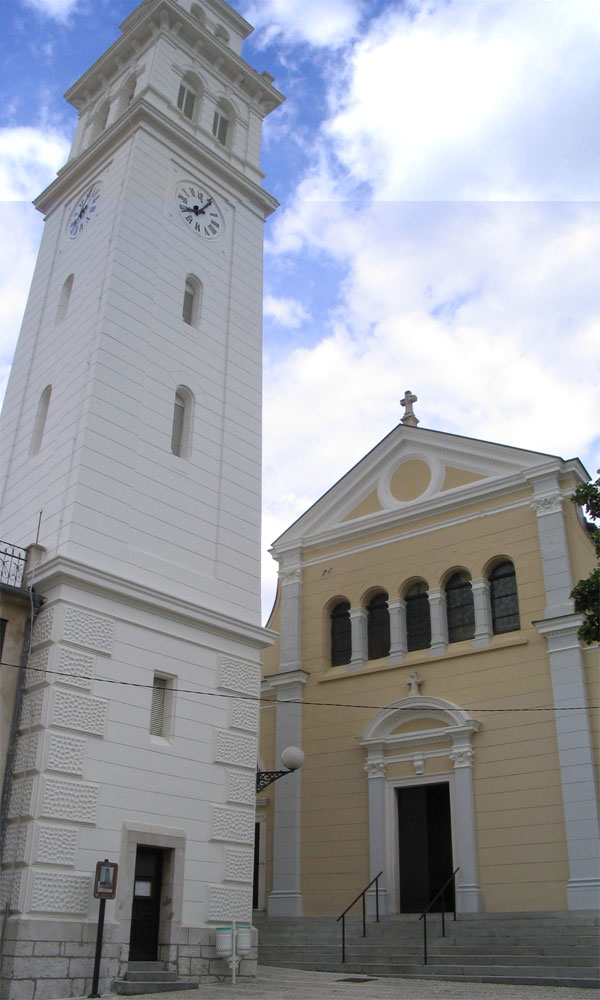 The parish church of St. Philip and Jacob. It was built in the 14th century as a threesided basilika. In the 18th century, the church was change into the baroque style and at the beginning og the 20th century, the ofrepart was decorated in the historicism style. In the sabctuary, the year 1520 was engraved in Arabic, Roman and Glagolitic numbers. In it is the tumbstone of the modrushal bishop Christoper, bishop Ivan K. Caballini, bishop Ivan K. Jezic and the canon Stjepan Mrzljak. The Steeple was built at the beginning of the 20th century (1909.-1912.) on the area of the St. Fabian and Sebastian's church which was built in 1496 in one day as a promised church at the time of the plague in Novi. In 1656, the Frankapa's gave anantependij that is kept in the Novi museum.